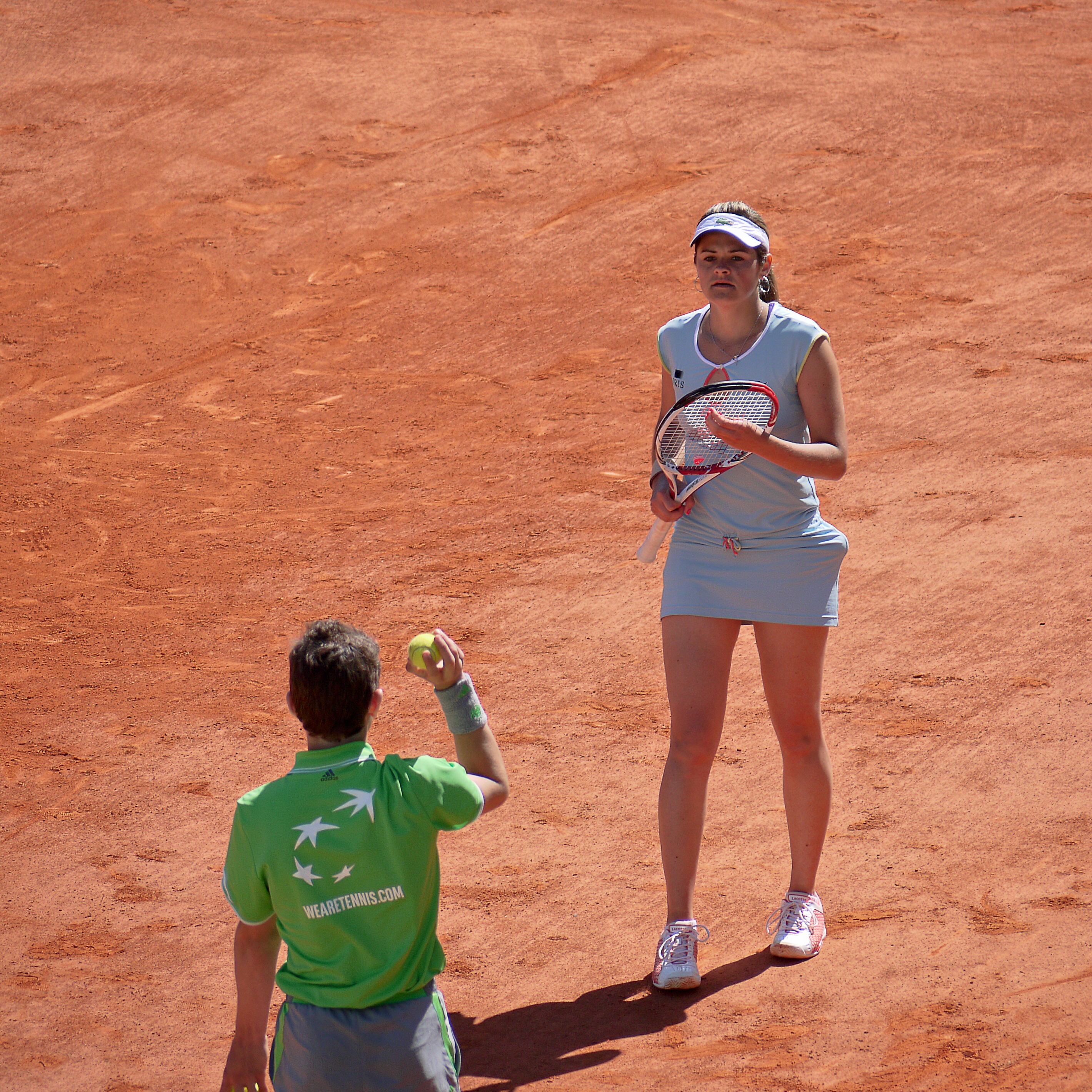 Caroline Wozniacki (DEN) def. Aleksandra Wozniak (CAN) Roland Garros 2011 - mercredi 25 mai - 2ème tour - Court Philippe Chatrier